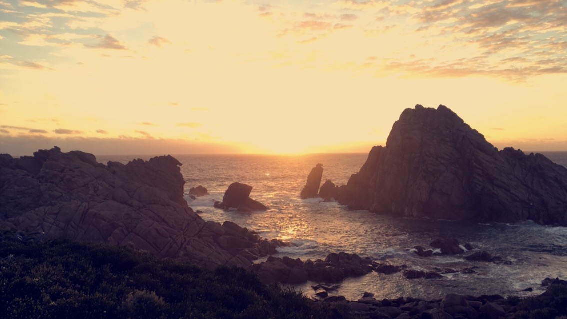 Sunset over sugarloaf rock in yallingup